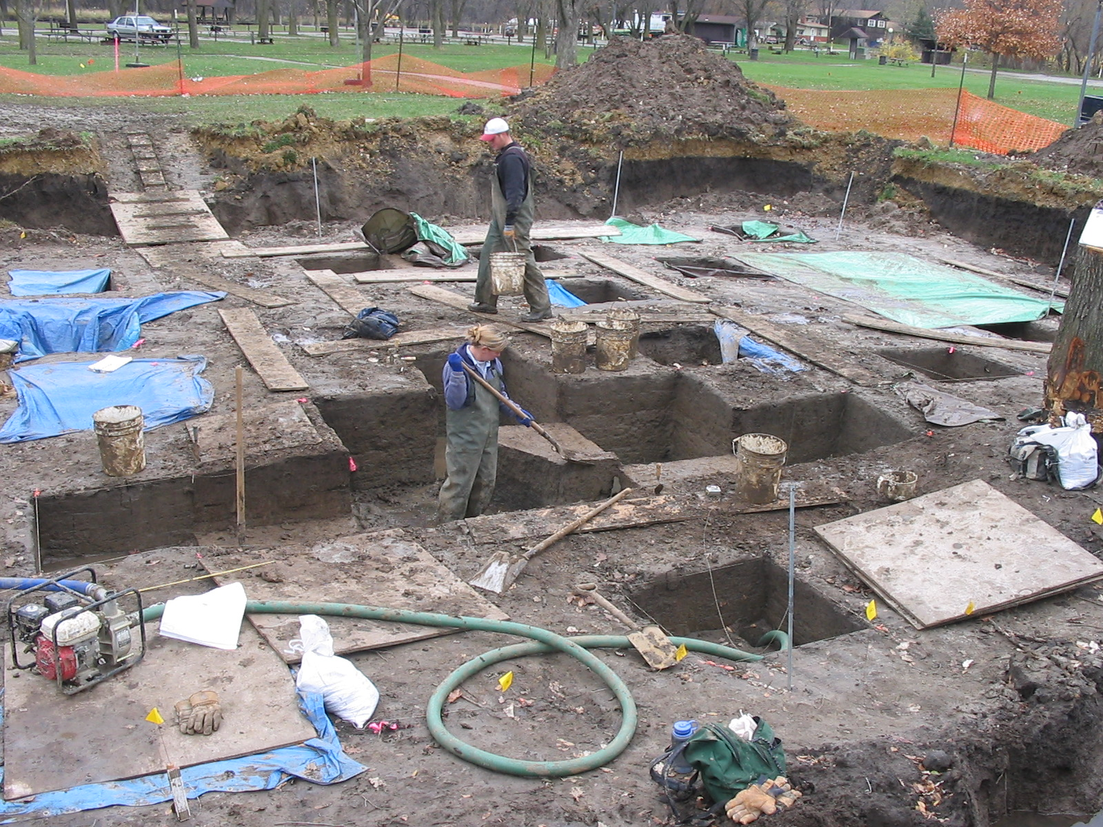 Excavations at the Edgewater Park Site, Coralville Iowa, 2004